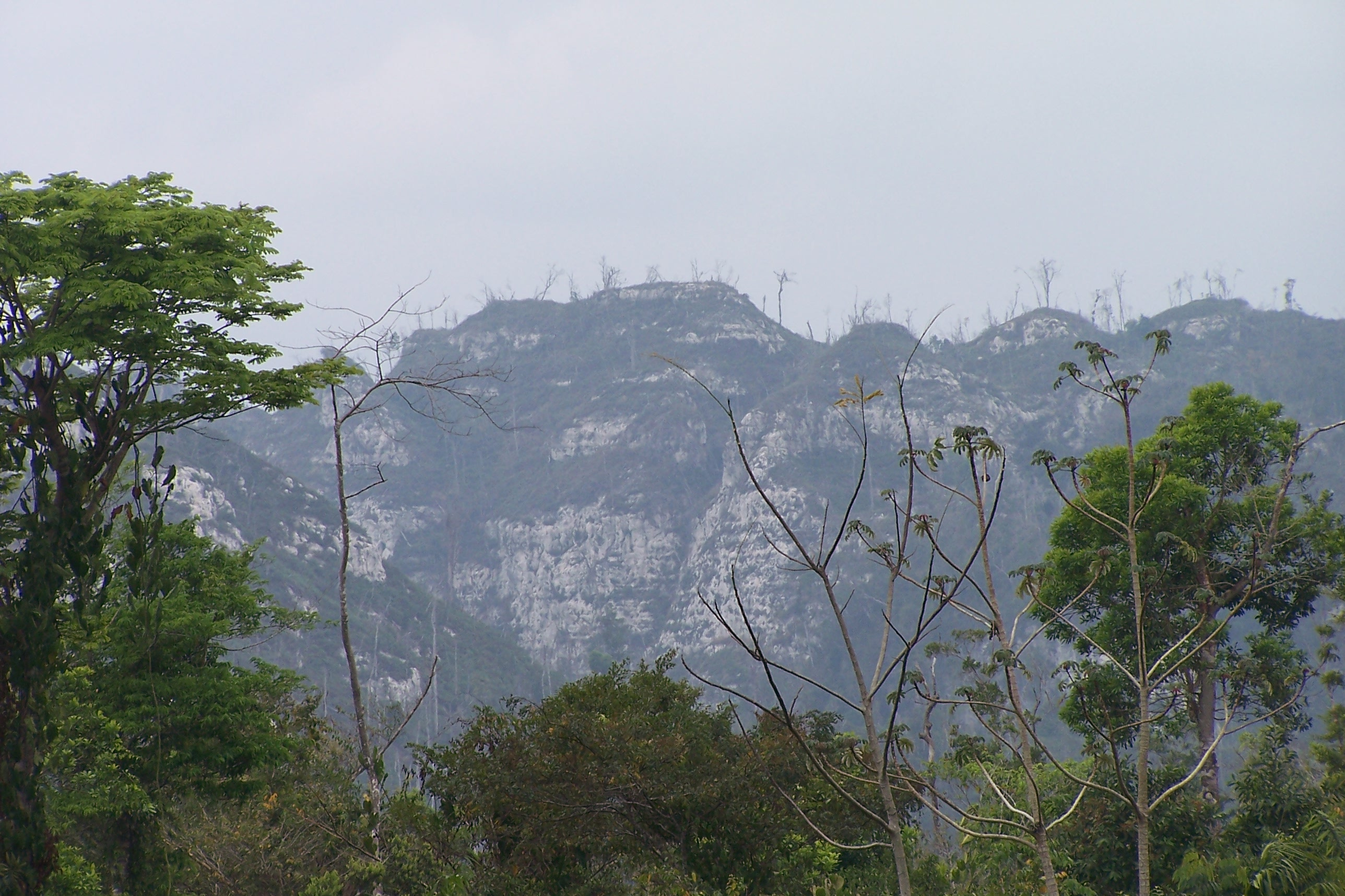 Maya Mountains in Belize.